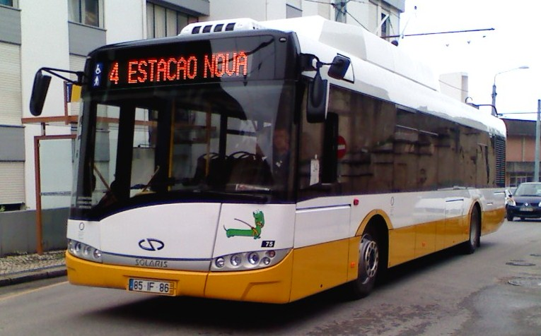 Solaris Trollino 12 trolleybus (#75) in Coimbra, Portugal. Built 2009, Serviços Municipalizados de Transportes Urbanos de Coimbra (SMTUC) operator.